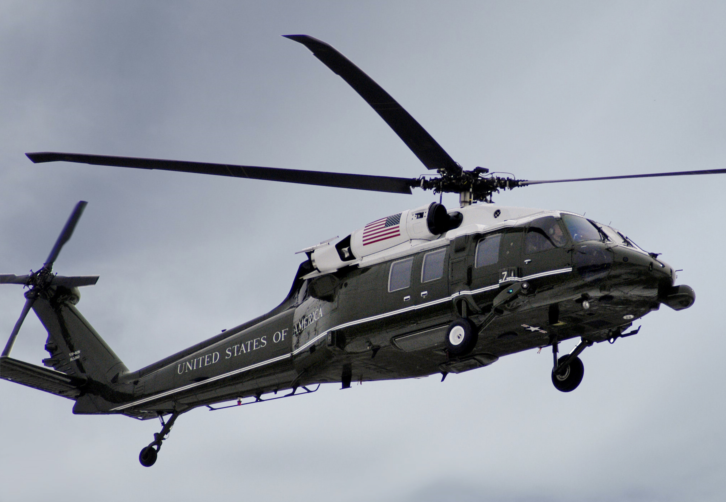 A VH-60N Whitehawk executive transport helicopter, assigned to Marine Helicopter Squadron One (HMX-1), flies over the Potomac River in Washington, D.C., en route to the White House. The VH-60N is a twin engine, all-weather helicopter that supports the executive transport mission for the President of the United States